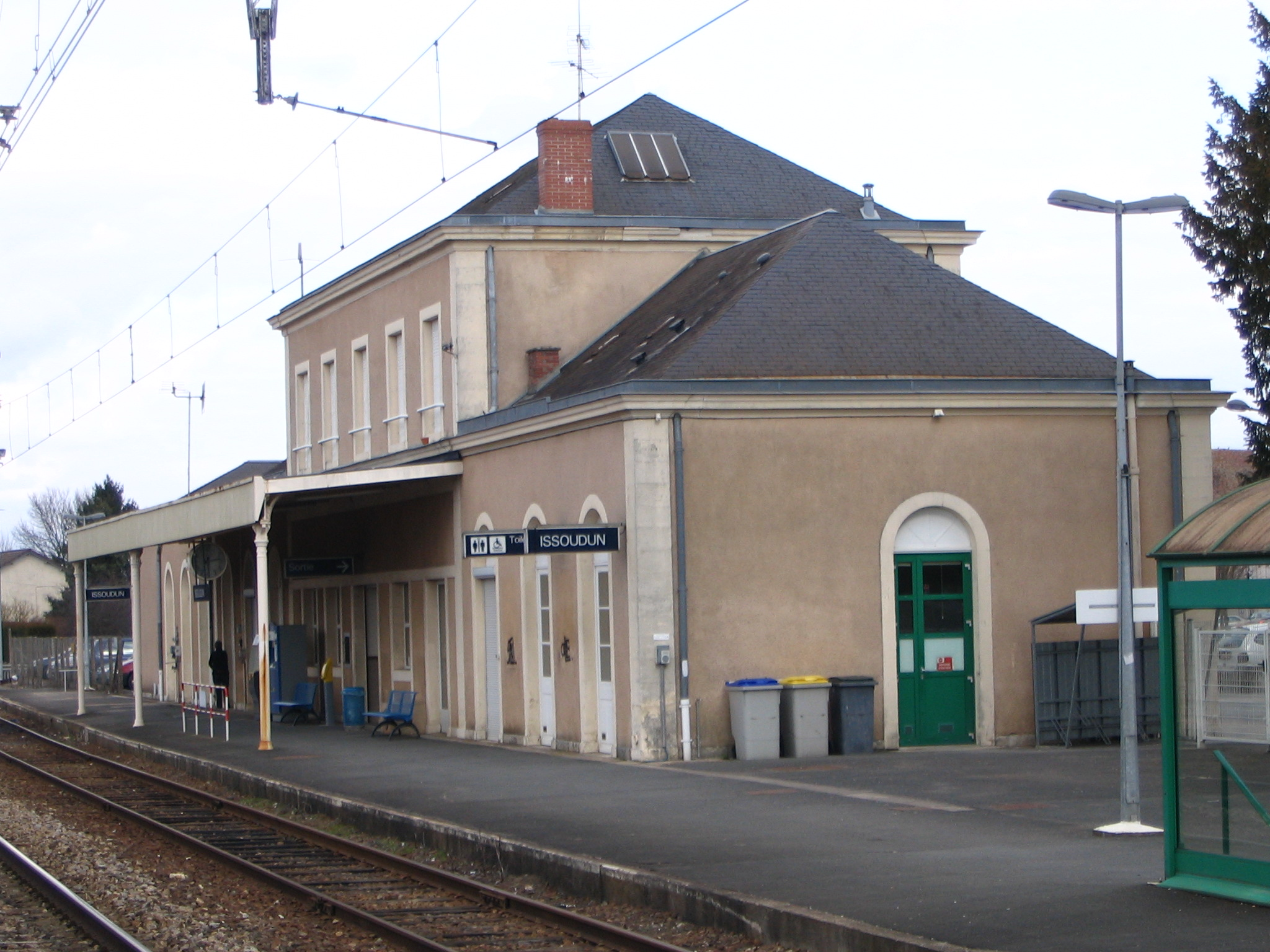 The train station of Issoudun, Indre, France.